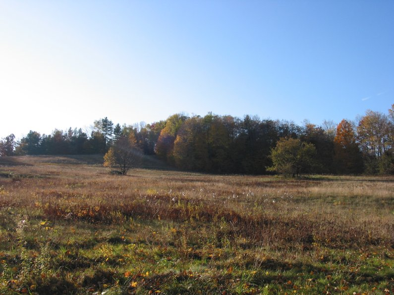 A field in Plainfield, MA, Behind West Hill Rd at Vining St. I took this picture in October of 2004. I hereby place it in the public domain and authorize its use for any purpose.